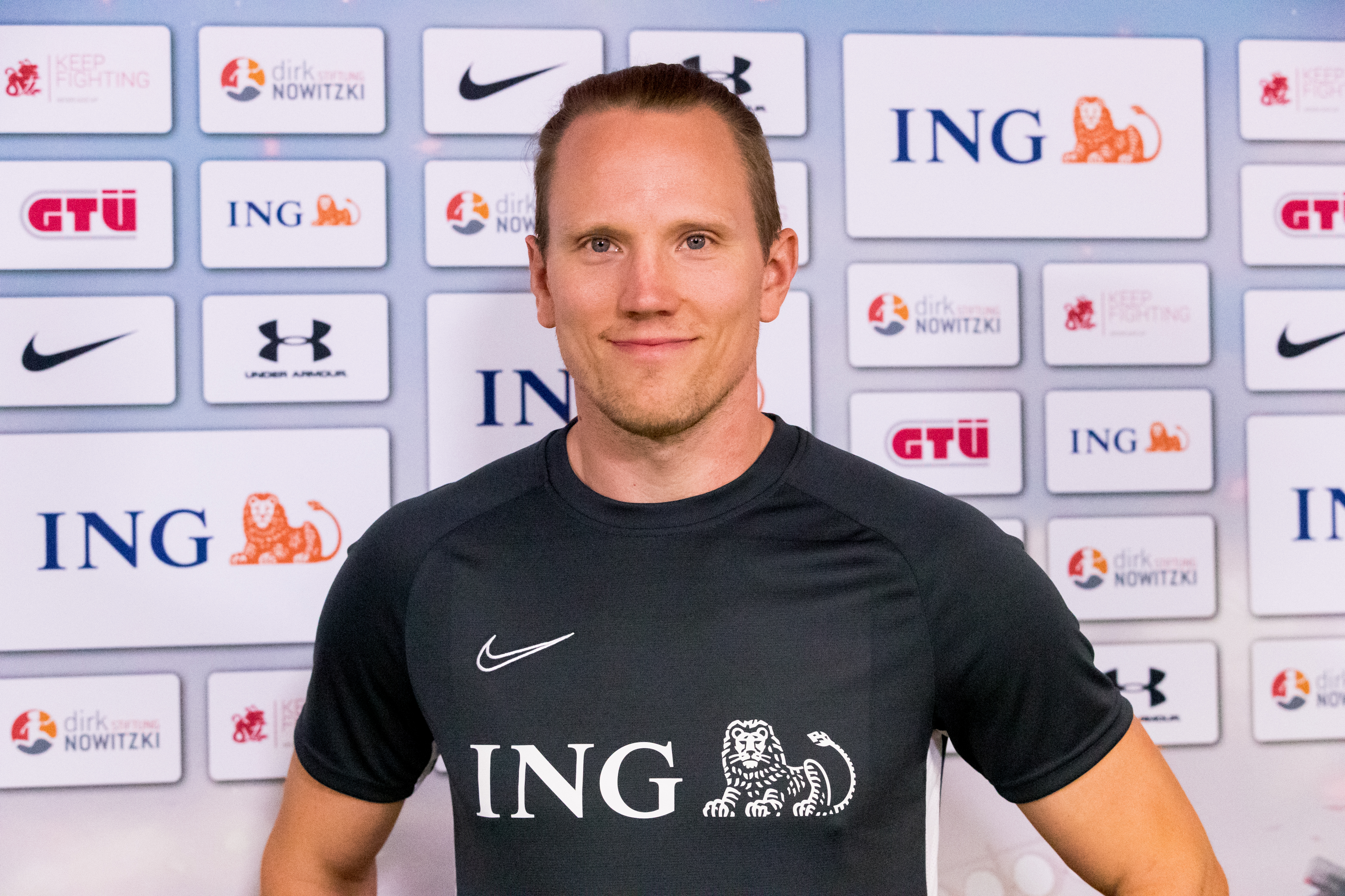 Christian Ehrhoff during Champions for Charity at BayArena, Leverkusen, Nordrhein-Westfalen, Germany on 2019-07-21, Photo: Sven Mandel